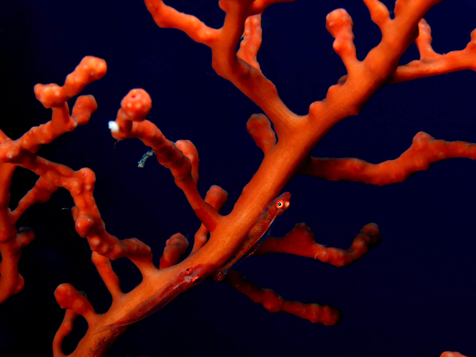 Pleurosicya mossambica (Coral gobies) on soft coral